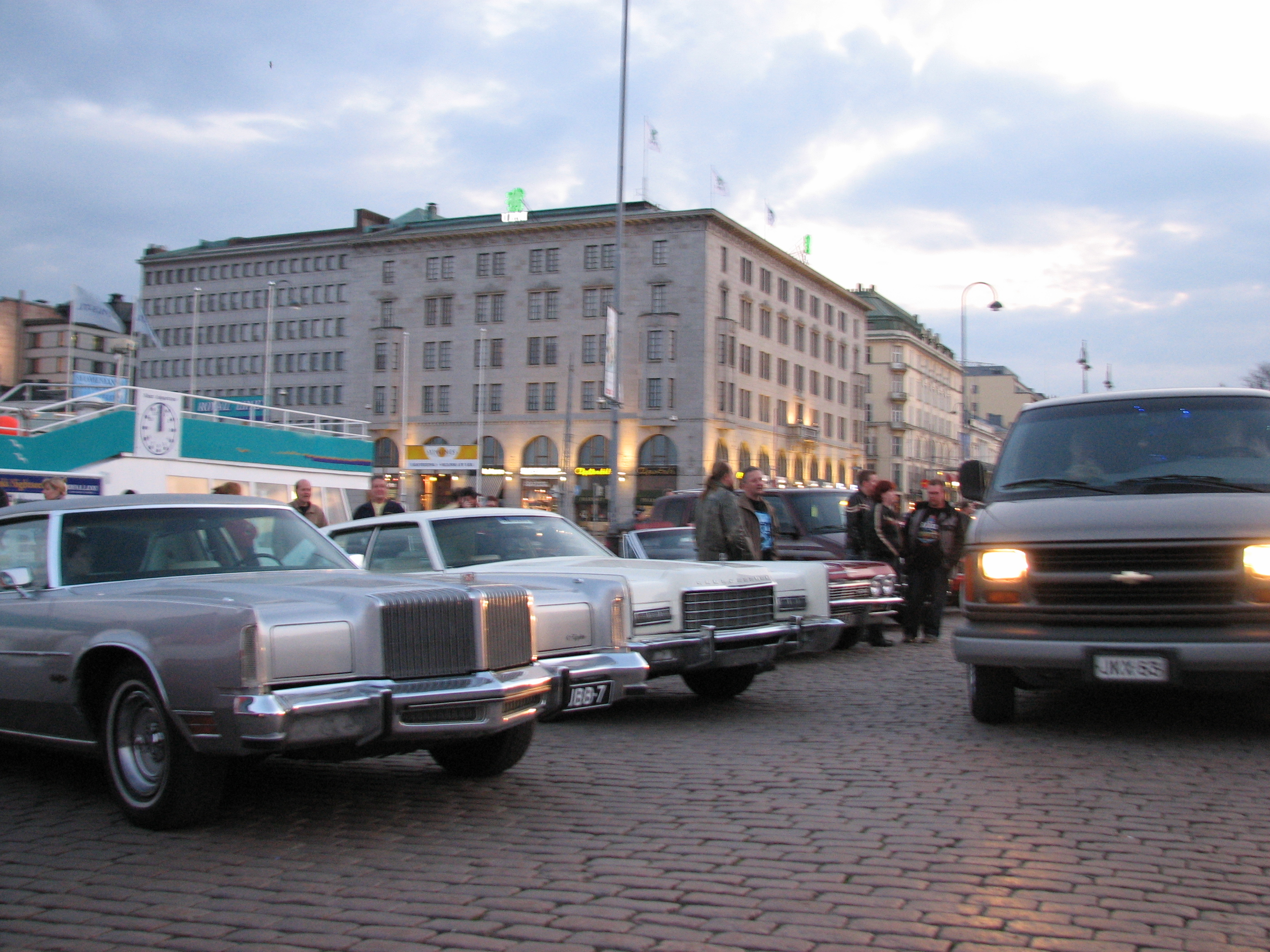 Old American cars on display at the Helsinki Market Square.